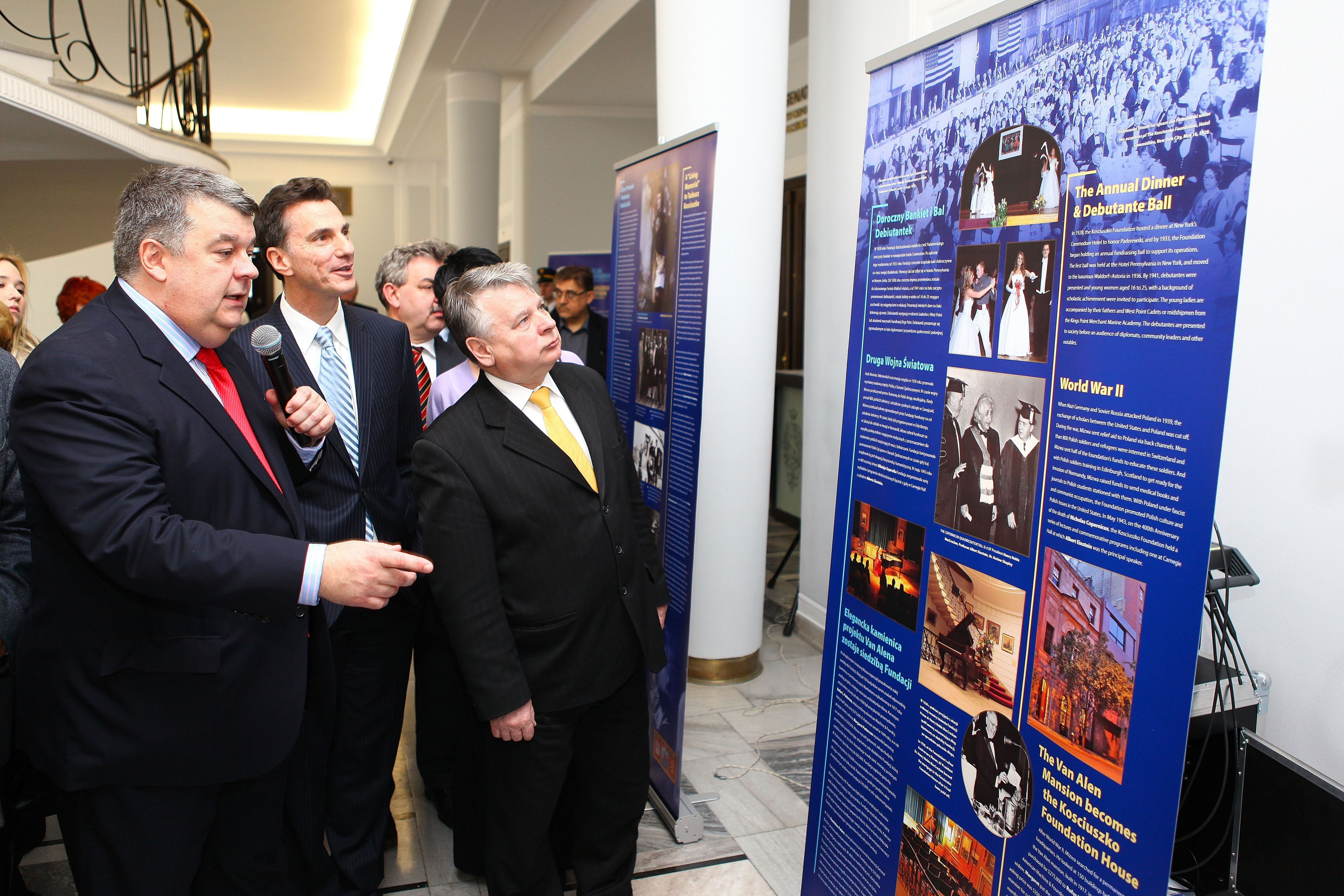 Opening of the exibition " The Kosciuszko Foundation - the American Center of Polish Culture" in the Polish Senate. Standing from the left: President of KF Alex Storożynski, US Ambassador to Poland Lee A. Feinstein and Marshal of the Senate Bogdan Borusewicz